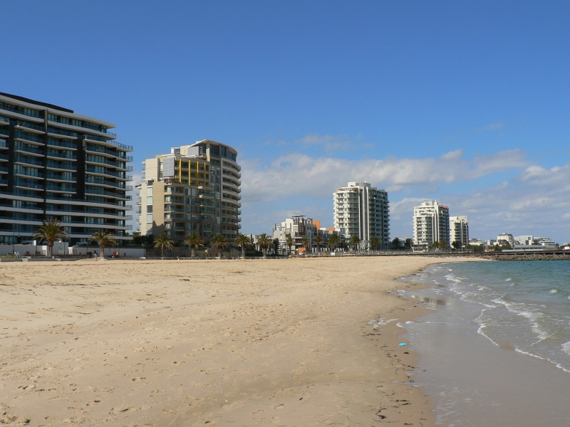 from Image:Beacon cove beach port melbourne.jpg taken by user:Biatch The beach at Beacon Cove. Port Melbourne, Victoria, Australia.